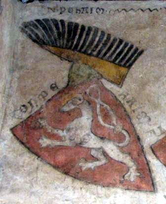 The first known coloured illustration of the coat of arms of the king of Bohemia. A mural in the town palace of Austrian town Krems. The seventieth of the 13th century.